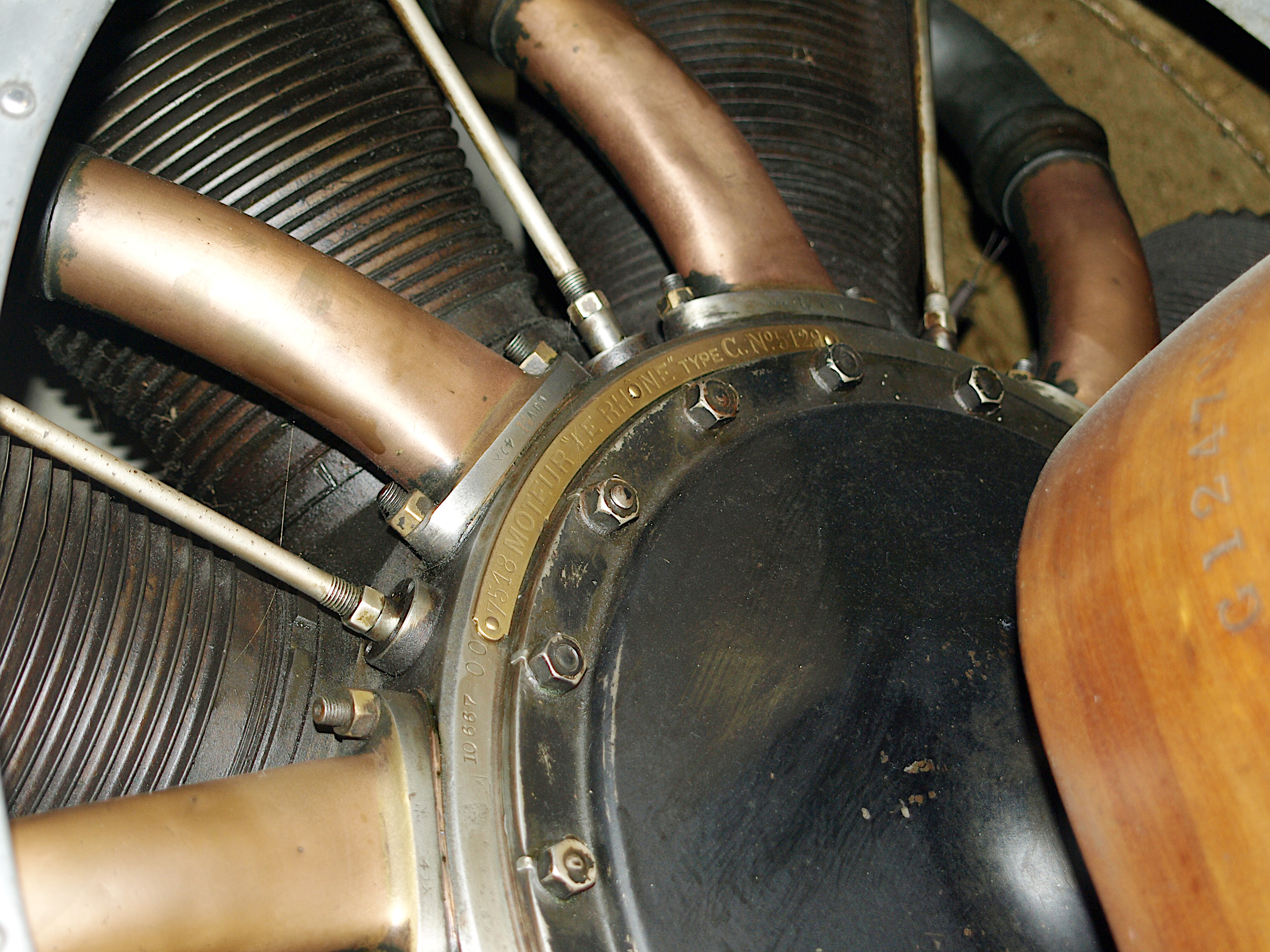 Close up detail of a Le Rhône 9C rotary aero engine (Royal Air Force Museum exhibit).